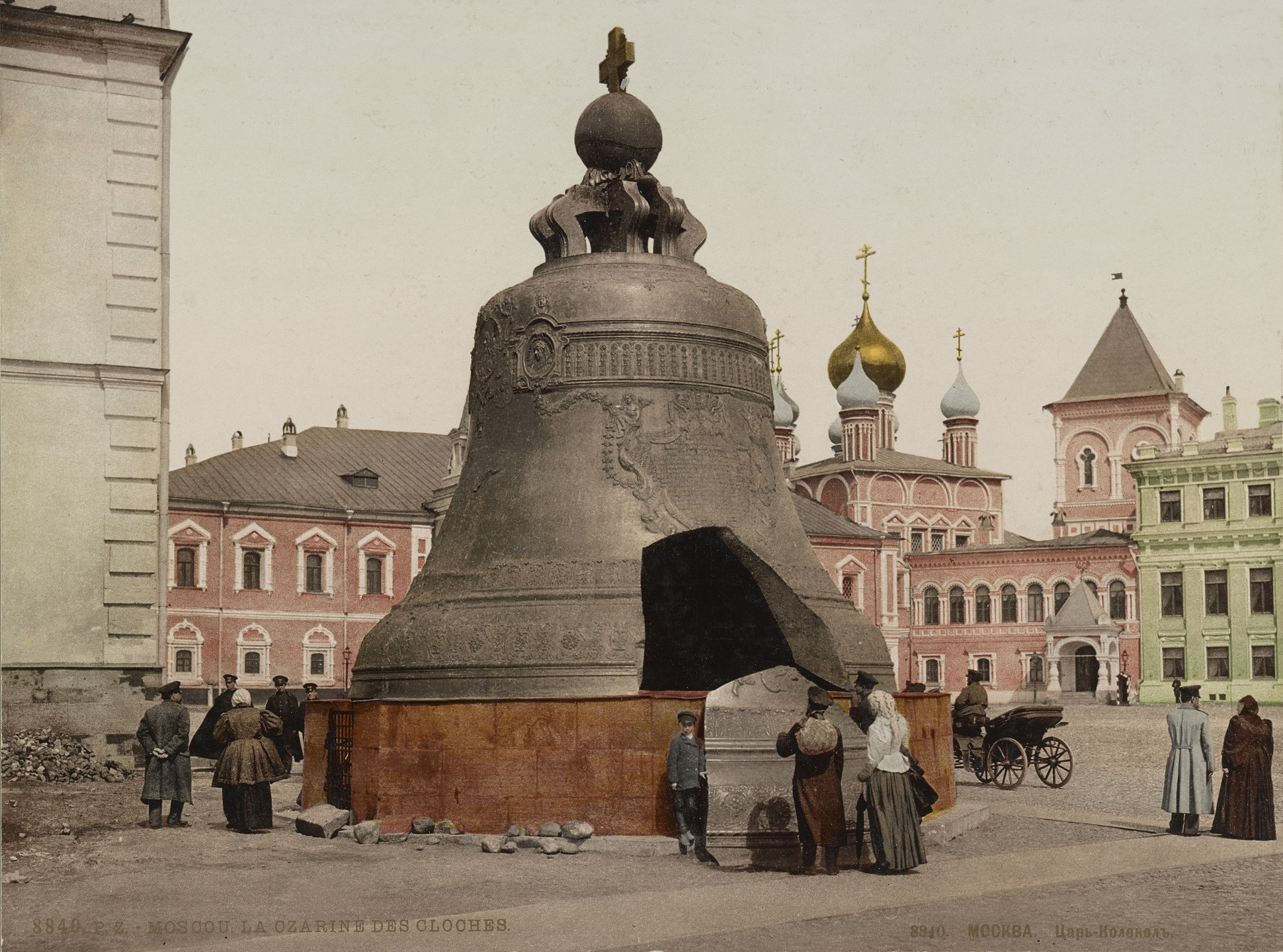 pre-revolutionaty russian postcard of Tsar Bell in the Moscow Kremlin